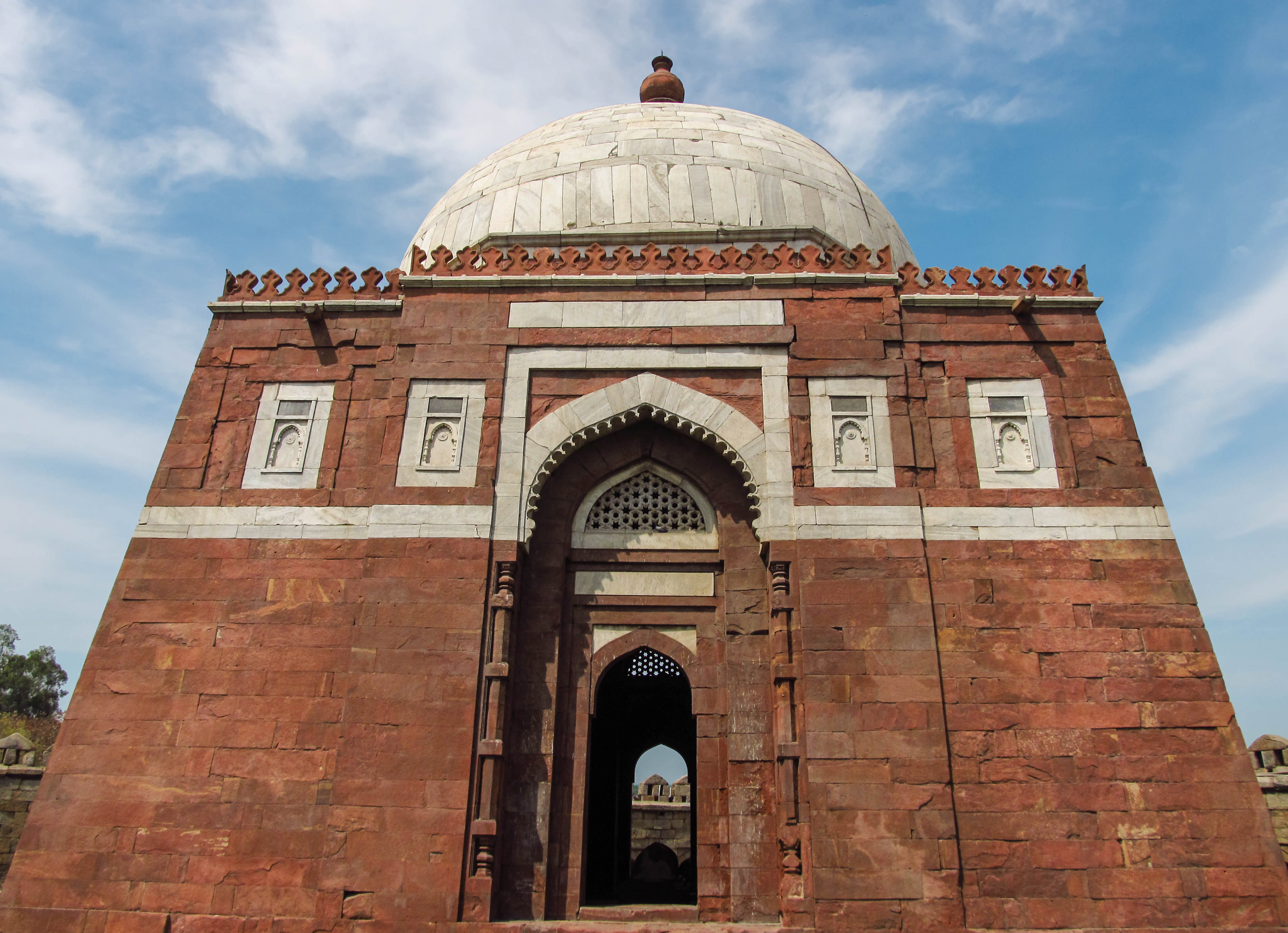 Tomb of Ghiasuddin Khan